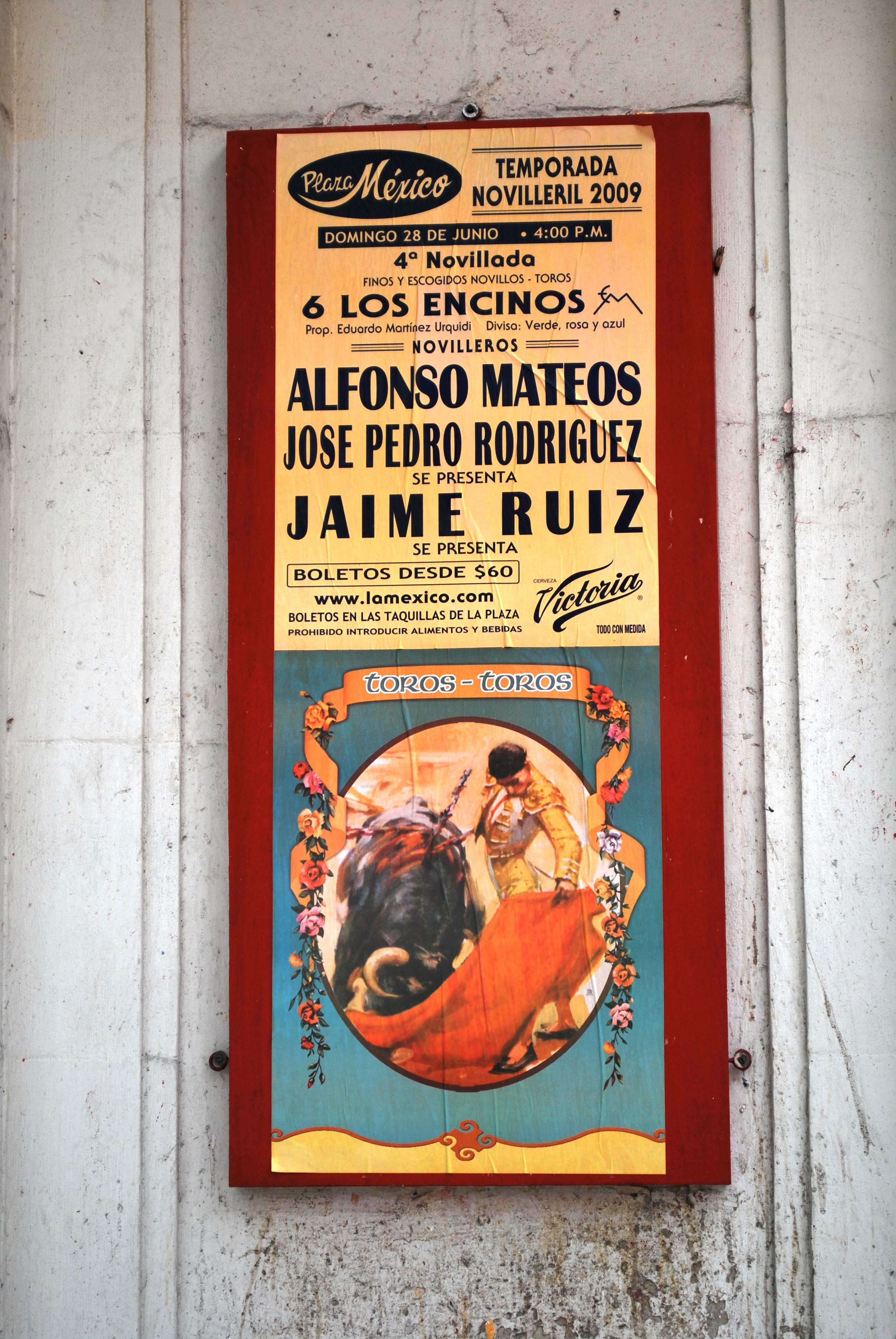 Poster outside the Plaza de Toros announing the Fourth "Novillada" on 28 June 2009 in Mexico City